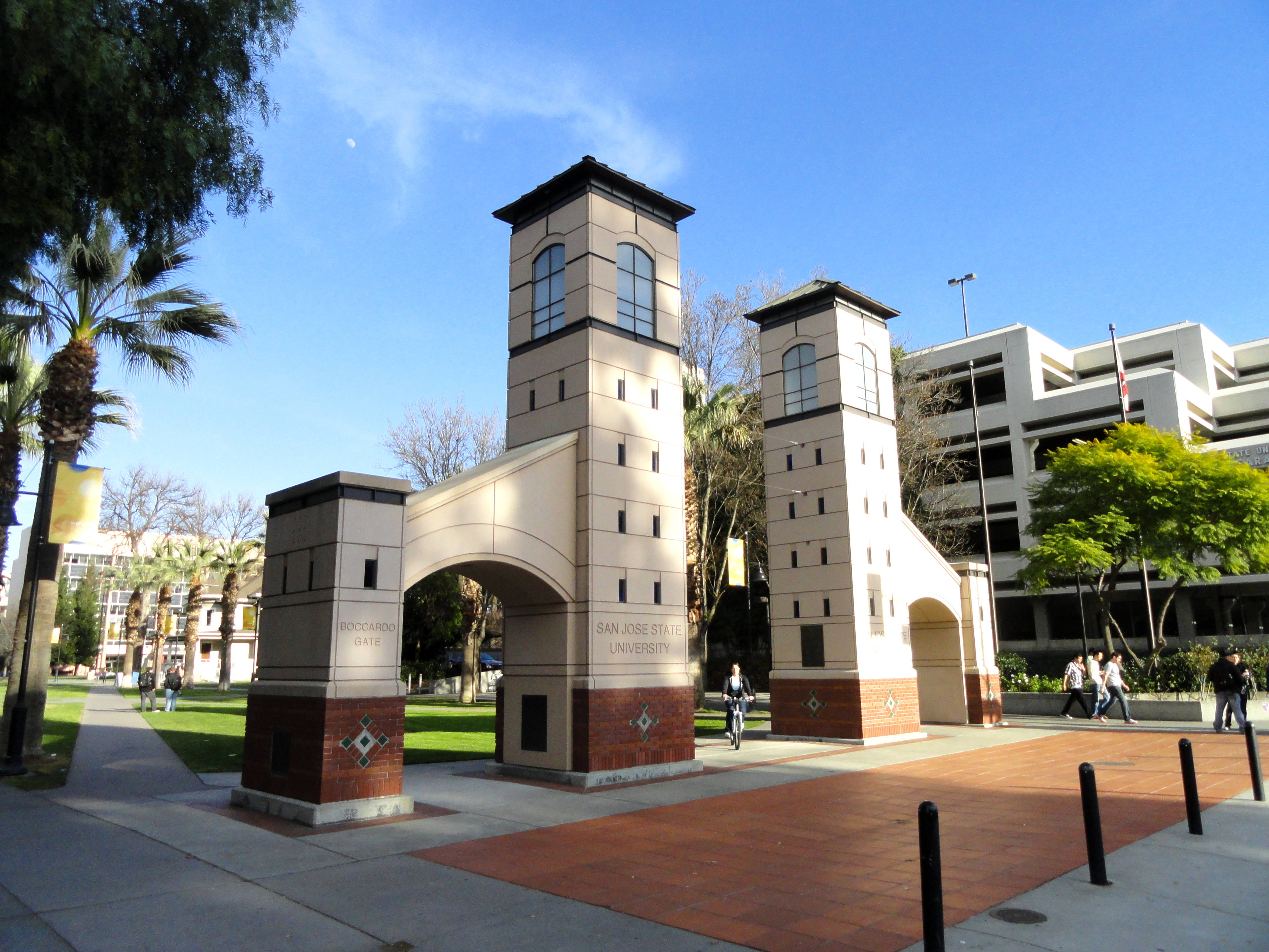 San José State University, San Jose, California, USA.